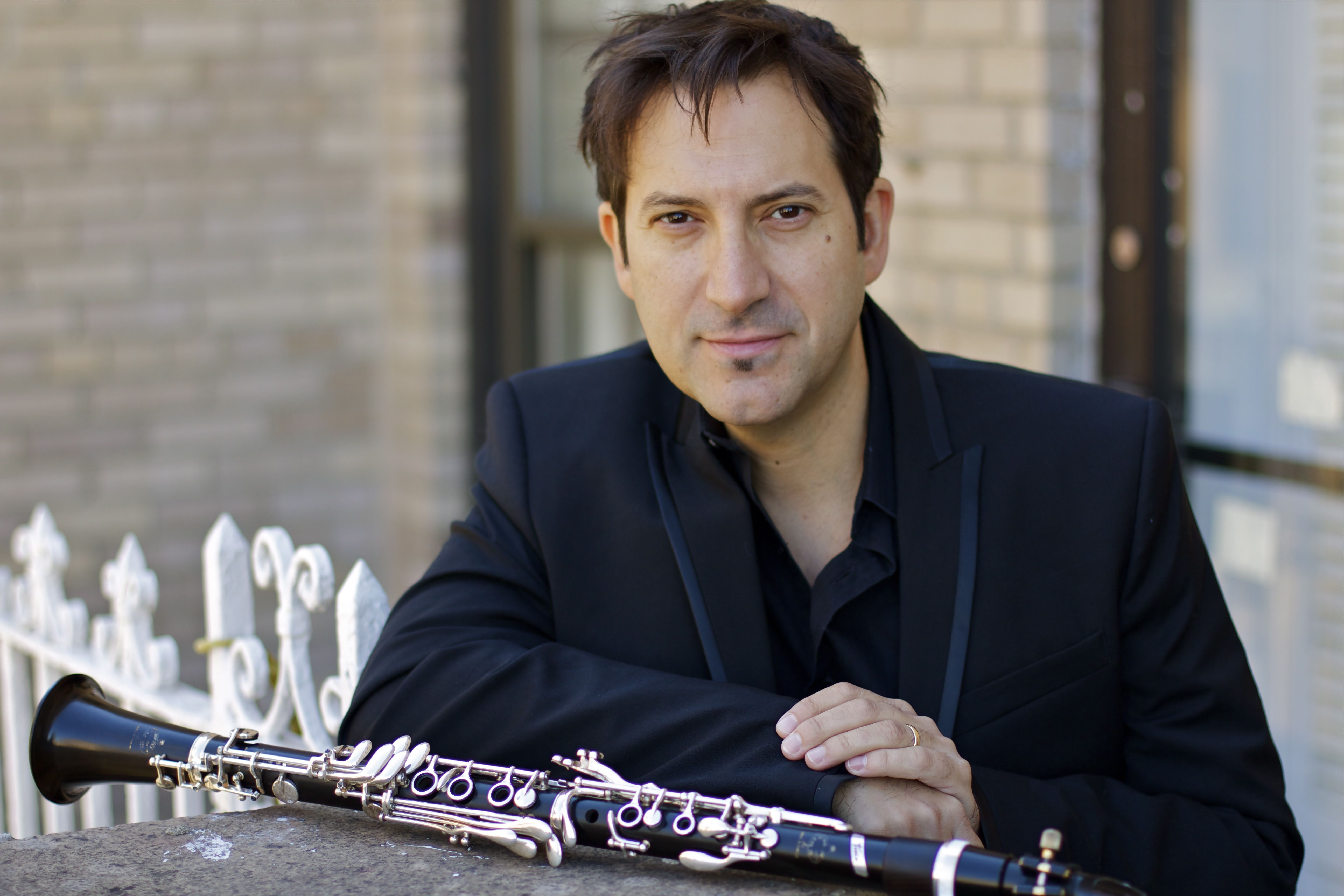 portrait of Pascual Martinez-Forteza.